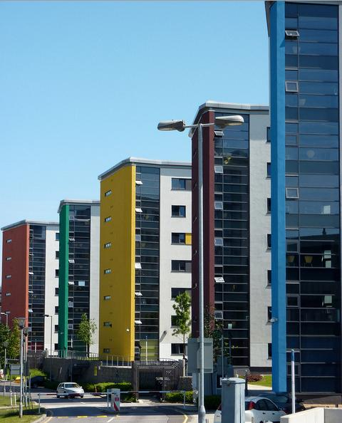 University of East London Student Accomodation, Located at the Docklands Campus.